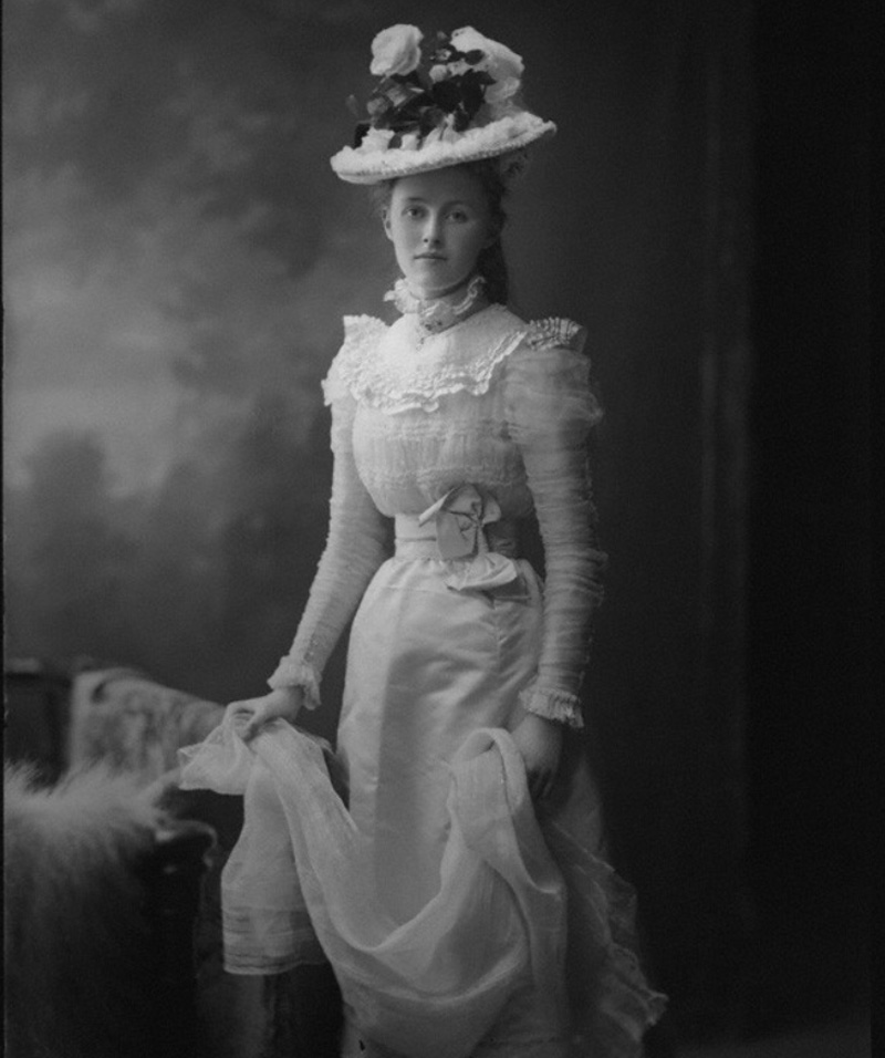 Margaret Selina Hamilton Russell of Hardwick Hall, Sedgefield, County Durham